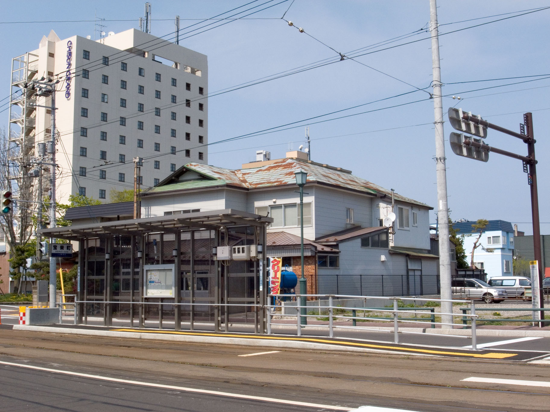 Horaicho station in Hakodate tram, Hokkaido, Japan